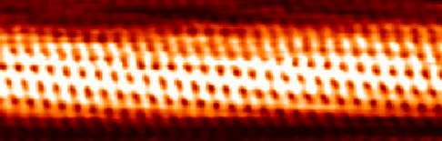 An atomically resolved image of a chiral nanotube as observed in STM experiments